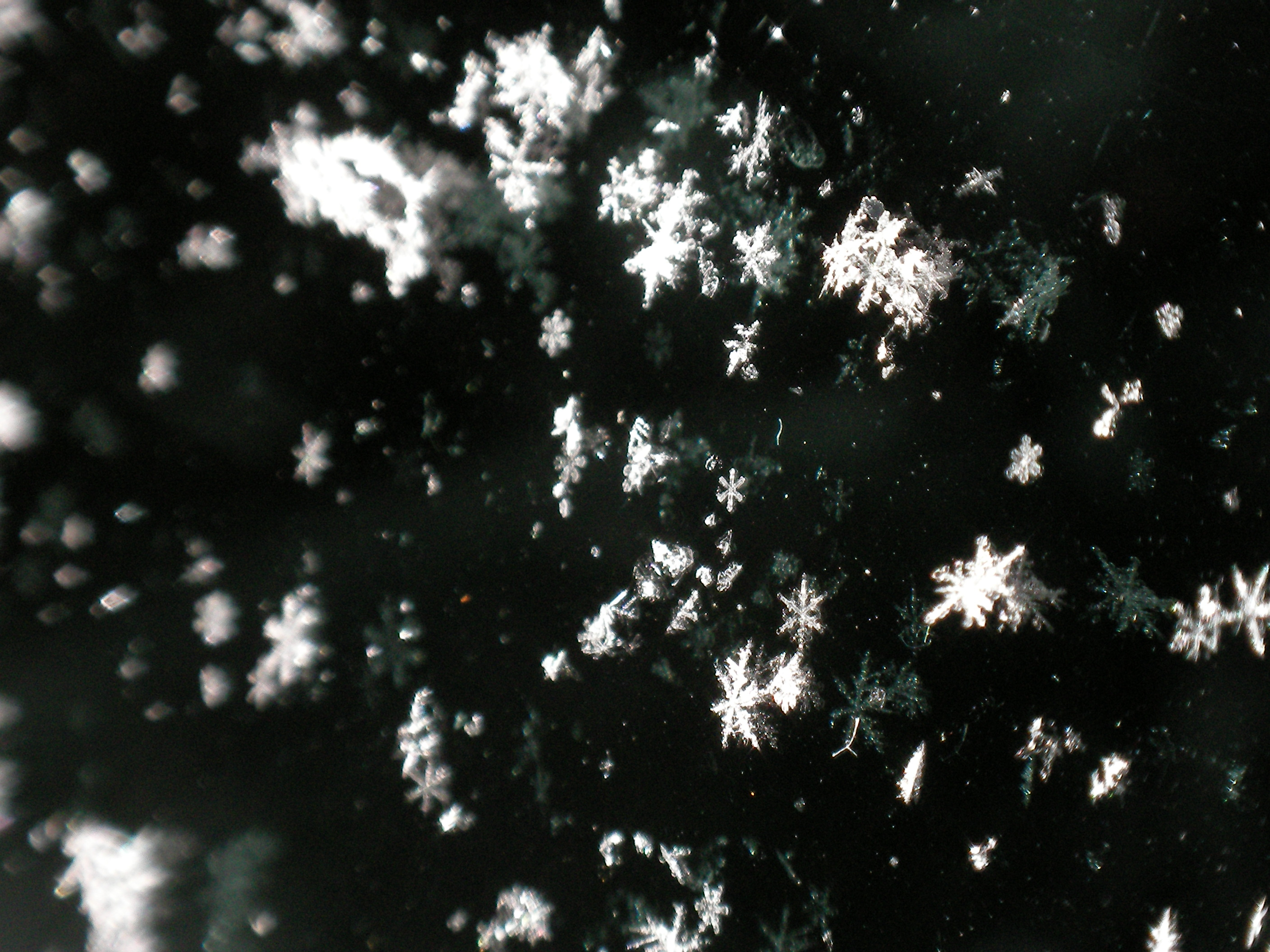 Snow crystals on top of the window of a car. Taken somewhere close to Hyrynsalmi. Temperature was around -7 ºC/ 19 ºF.